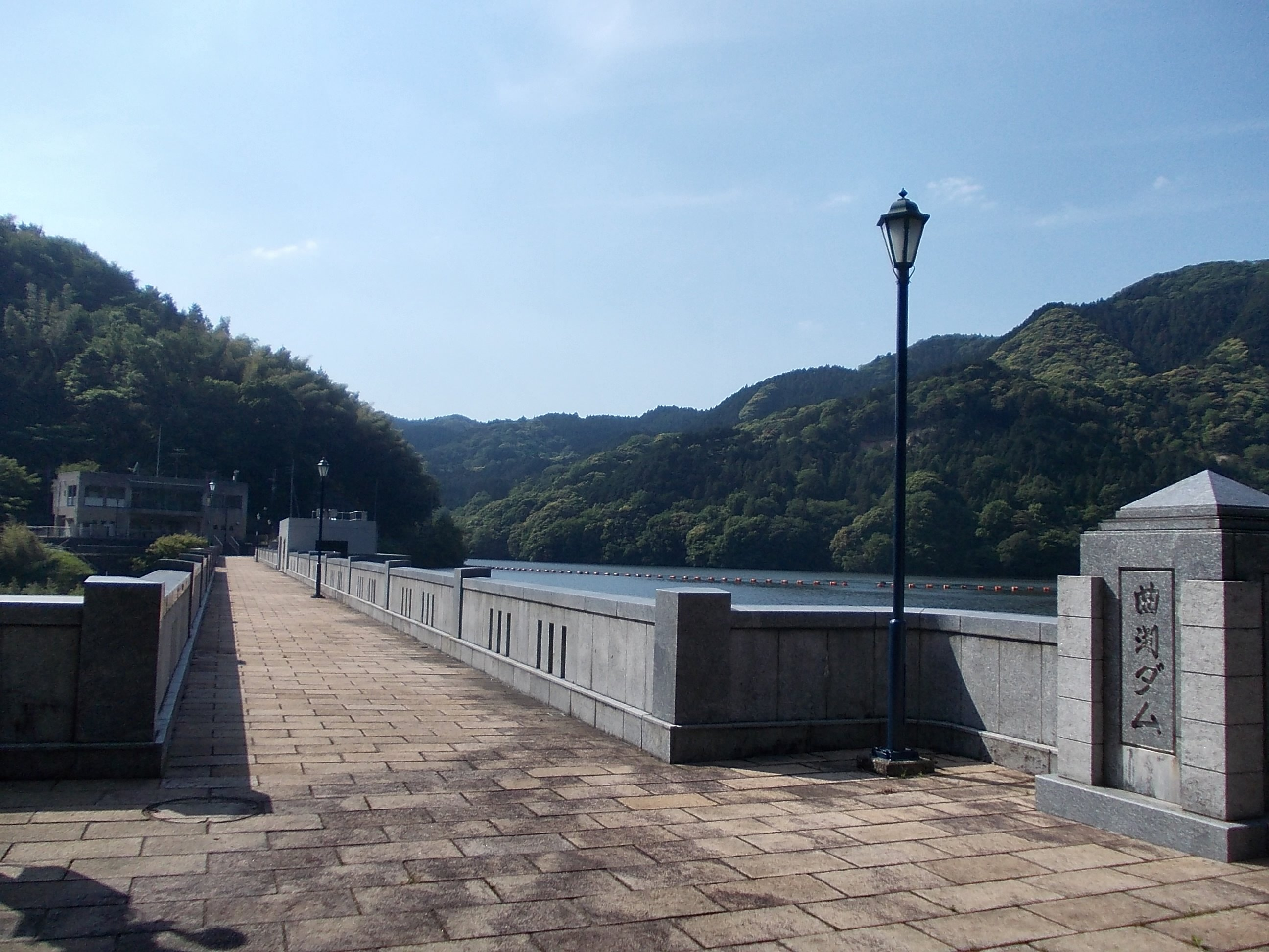 Magaribuchi Dam, Sawara-ku, Fukuoka, Japan